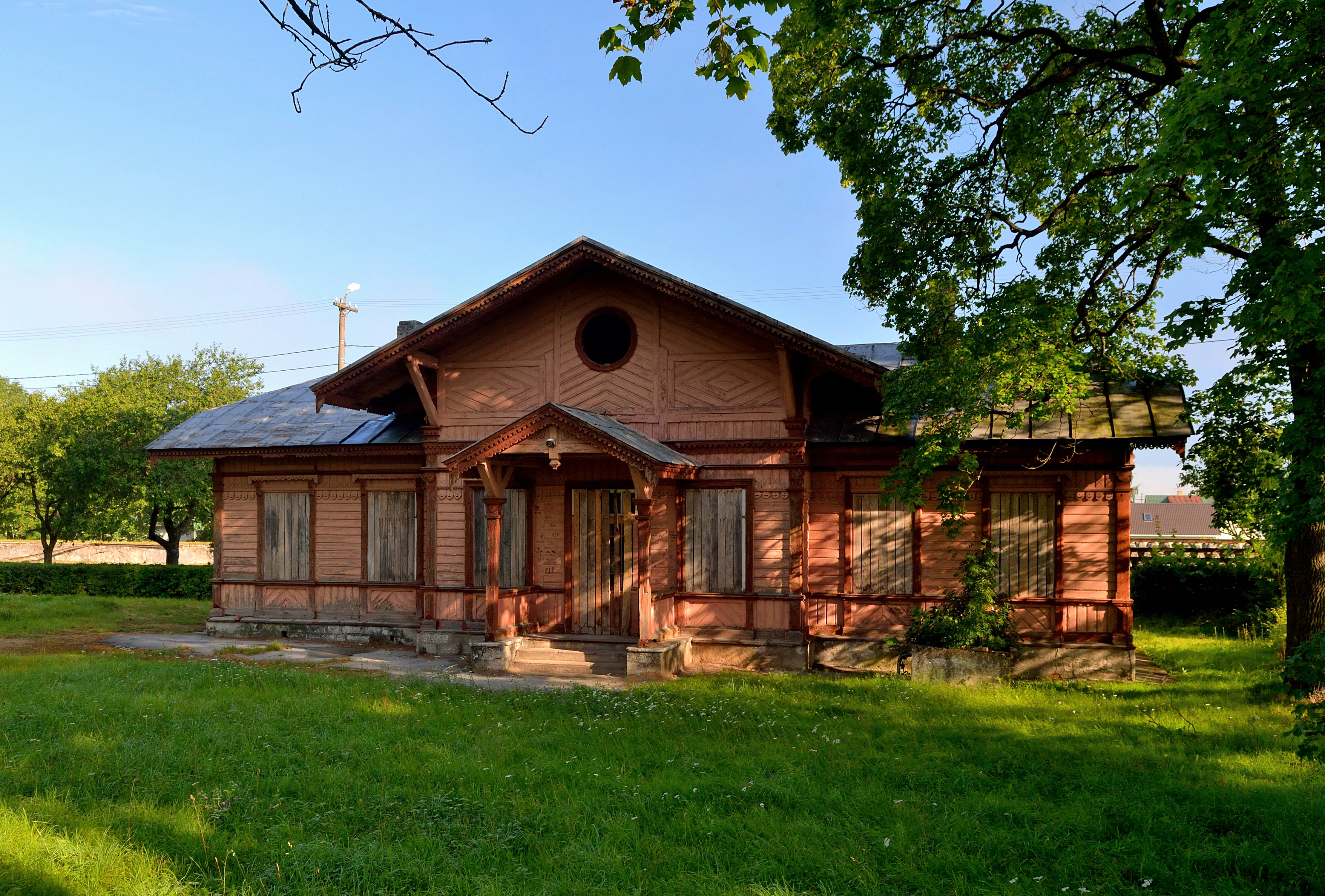 Kadrina station building